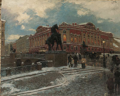 Alexander Karlovich Beggrov (1841-1914) View of the Anichkov Bridge in St. Petersburg